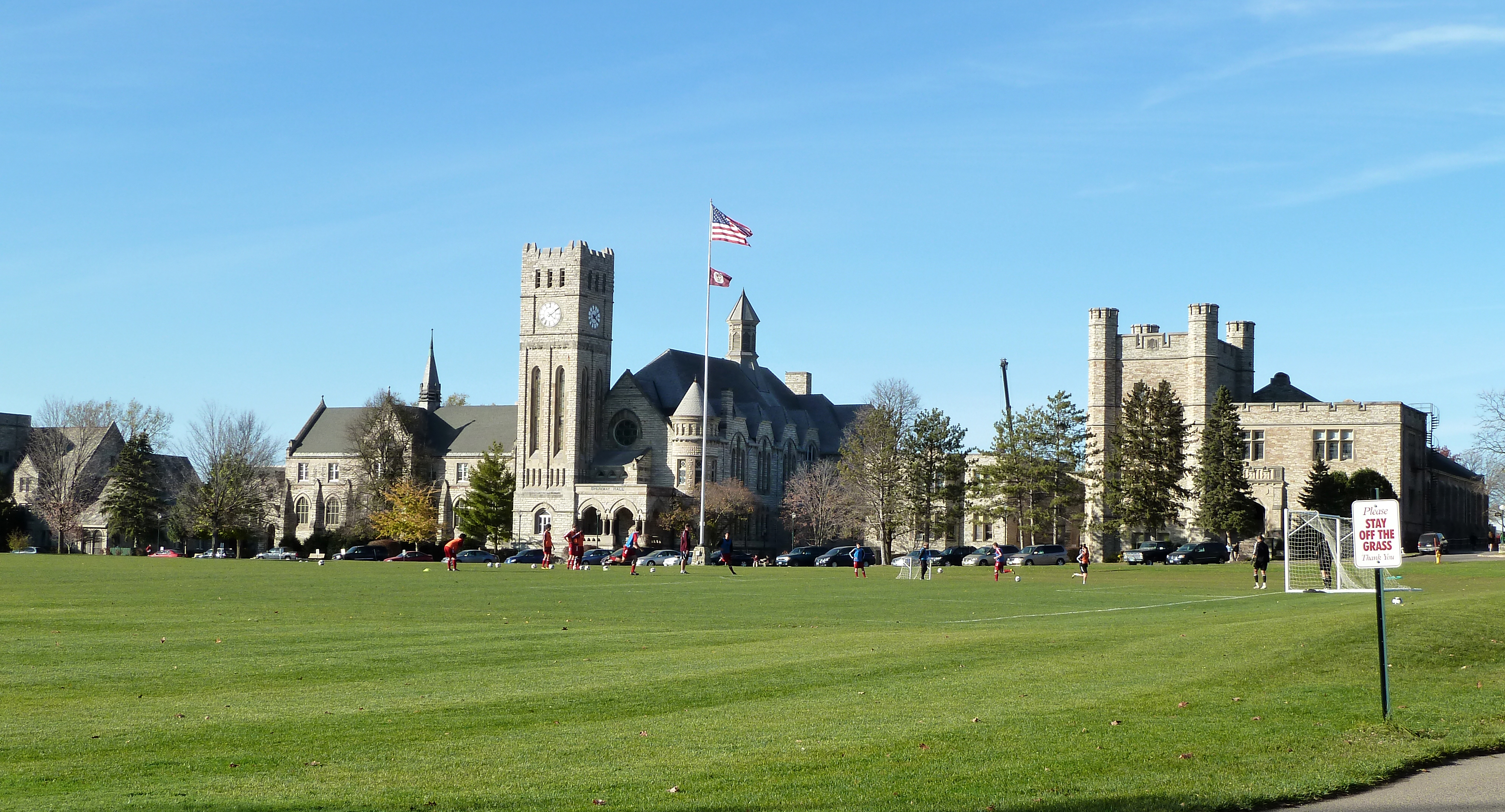 Shattuck Historic District, Faribault, Minnesota, USA.